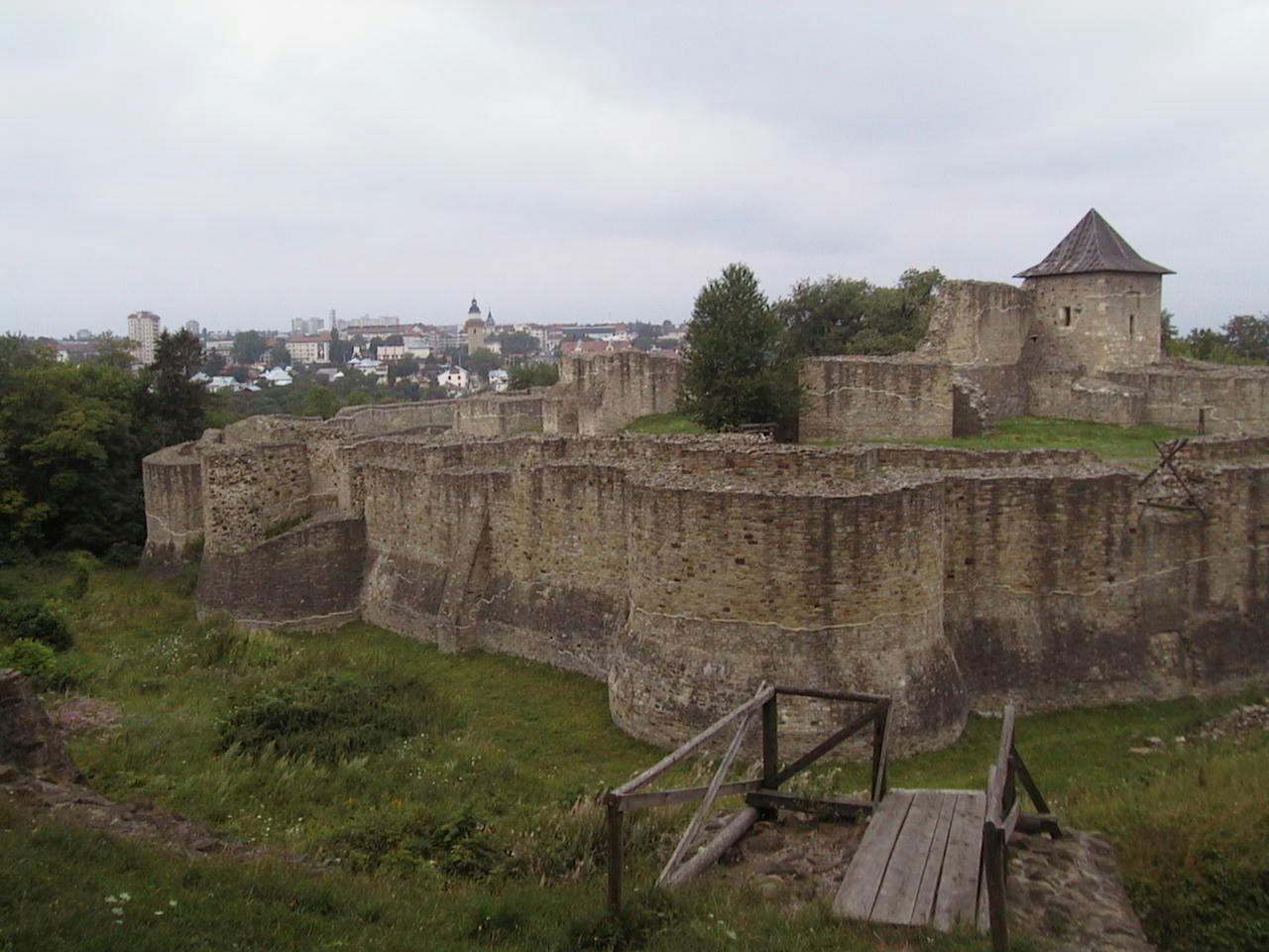 Seat Fortress of Suceava – the western part.